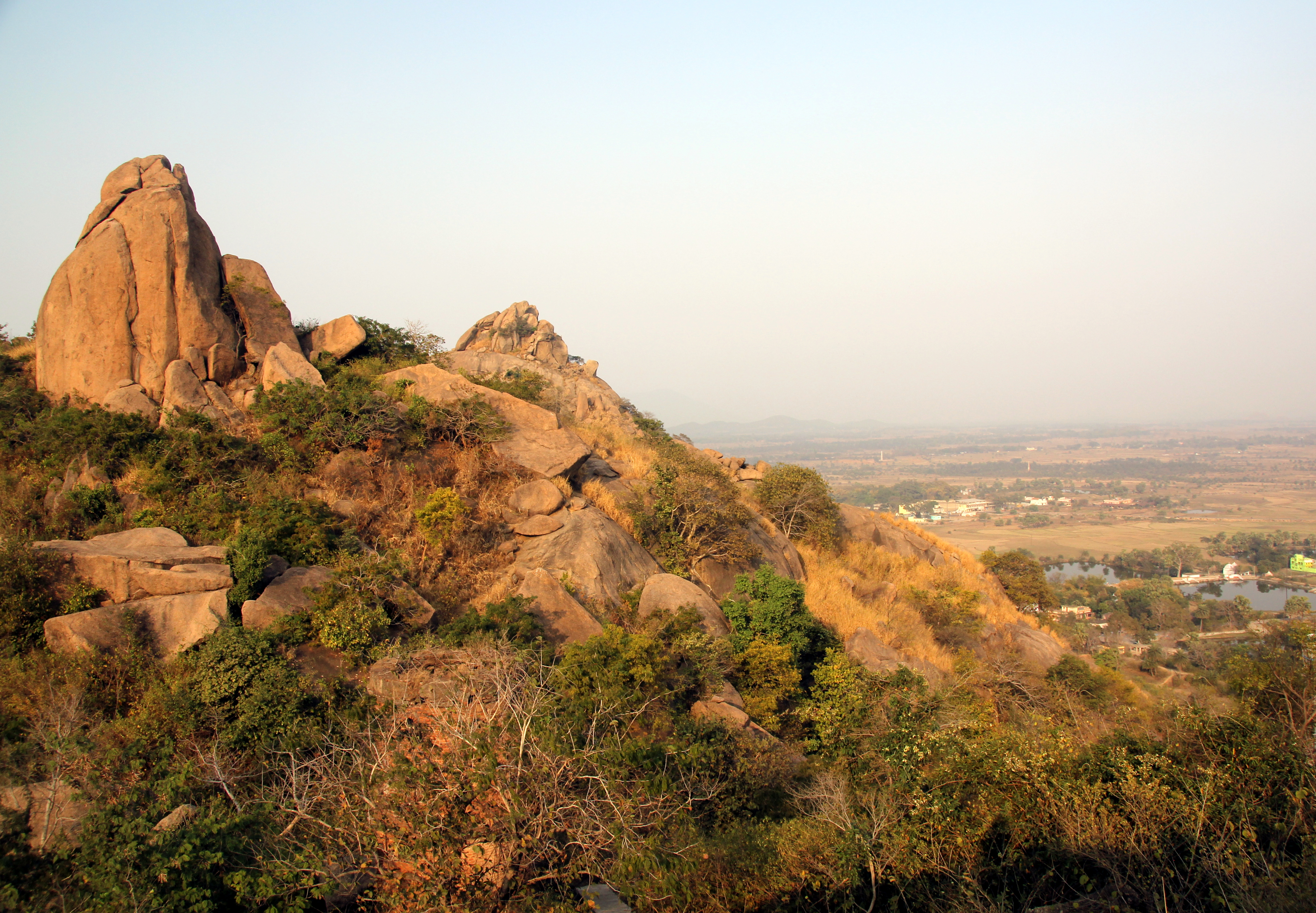 Joychandi Rocks